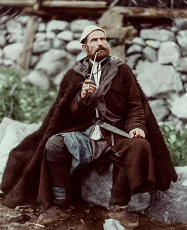 Old peasant with dagger and long smoking pipe, Mestia, Svanetia, Georgia (Republic)